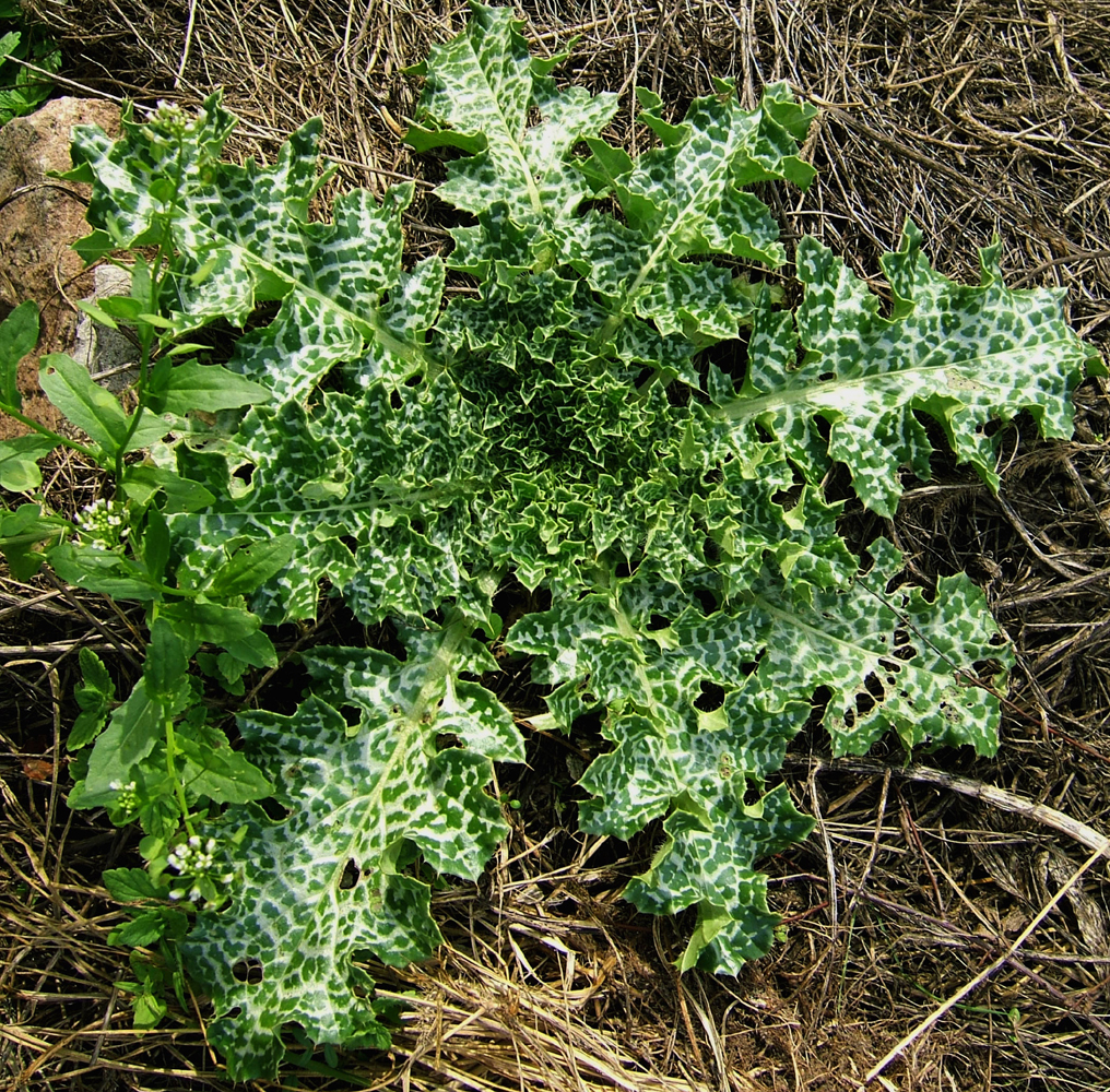 Blessed milk thistle